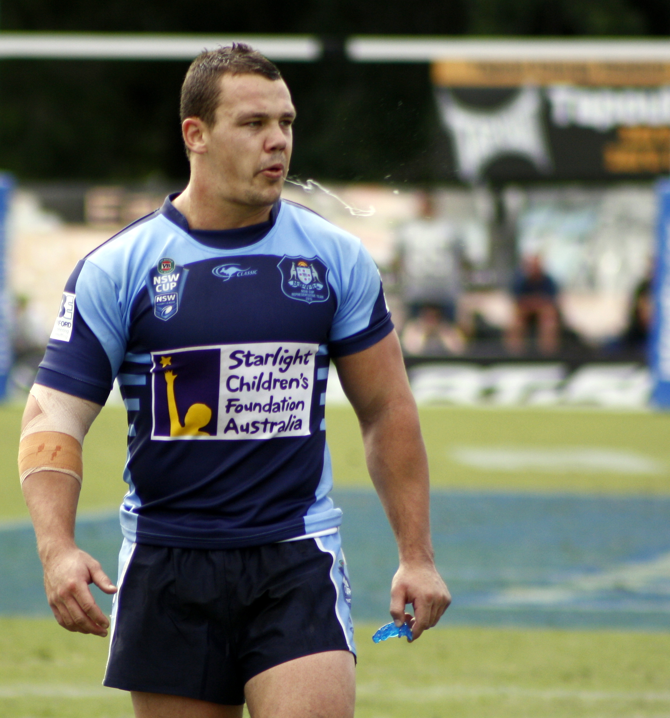 Sam Anderson. Queensland residents versus New South Wales at Langlands Park on 3 May 2015.